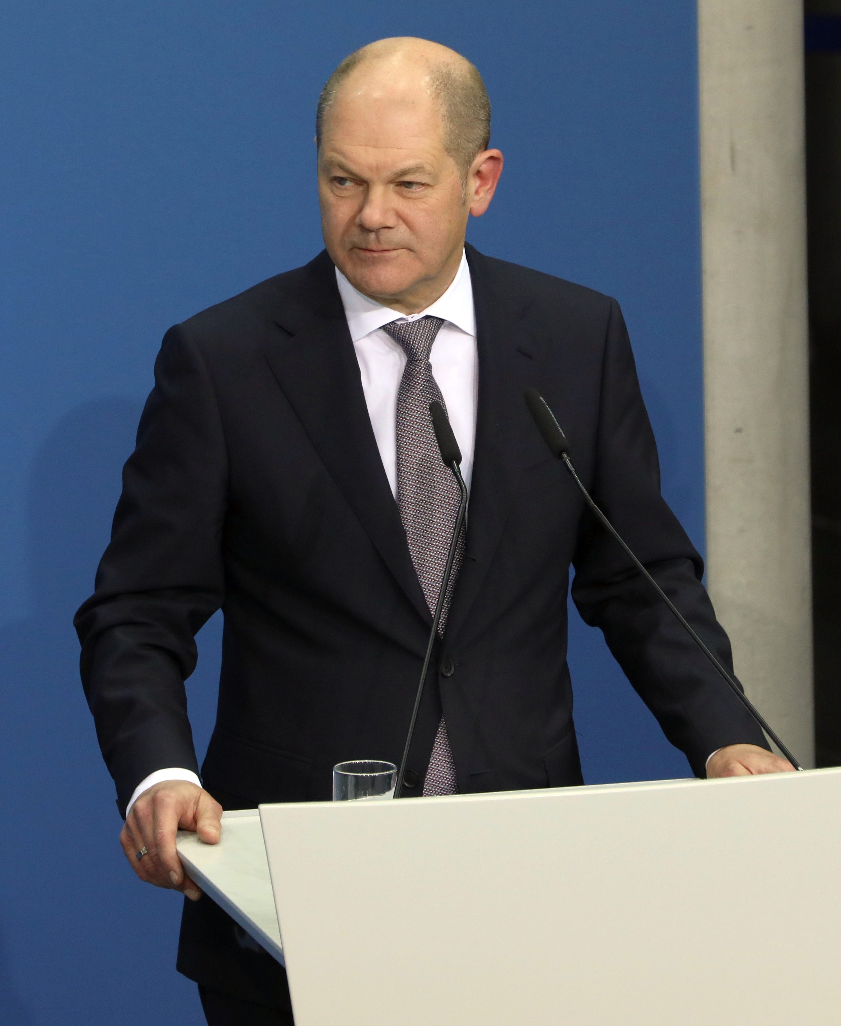 Signing of the coalition agreement for the 19th election period of the Bundestag: Olaf Scholz